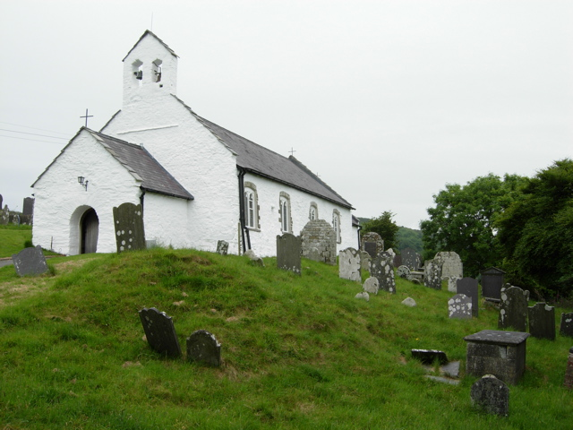 Llanfihangel Penbryn (not Penybryn) church, dedicated to St Michael Llanfihangel Penbryn parish church stands in an ancient circular hilltop churchyard in splendid isolation, less than half a kilometre from the sea, but just tucked out of view from any marauding Viking raiders. It has beautiful carved roof trusses. An aerial view can be seen here